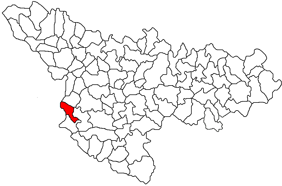 Locator map of the commune of Otelec, Timiș County Romania